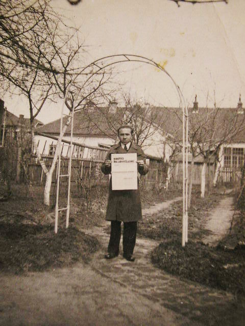 First issue of the newspaper